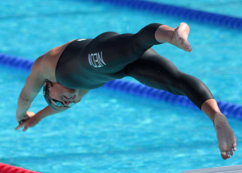 Lia Dekker. 200m breaststroke heats. 2009 FINA World Championships, Rome, Italy.